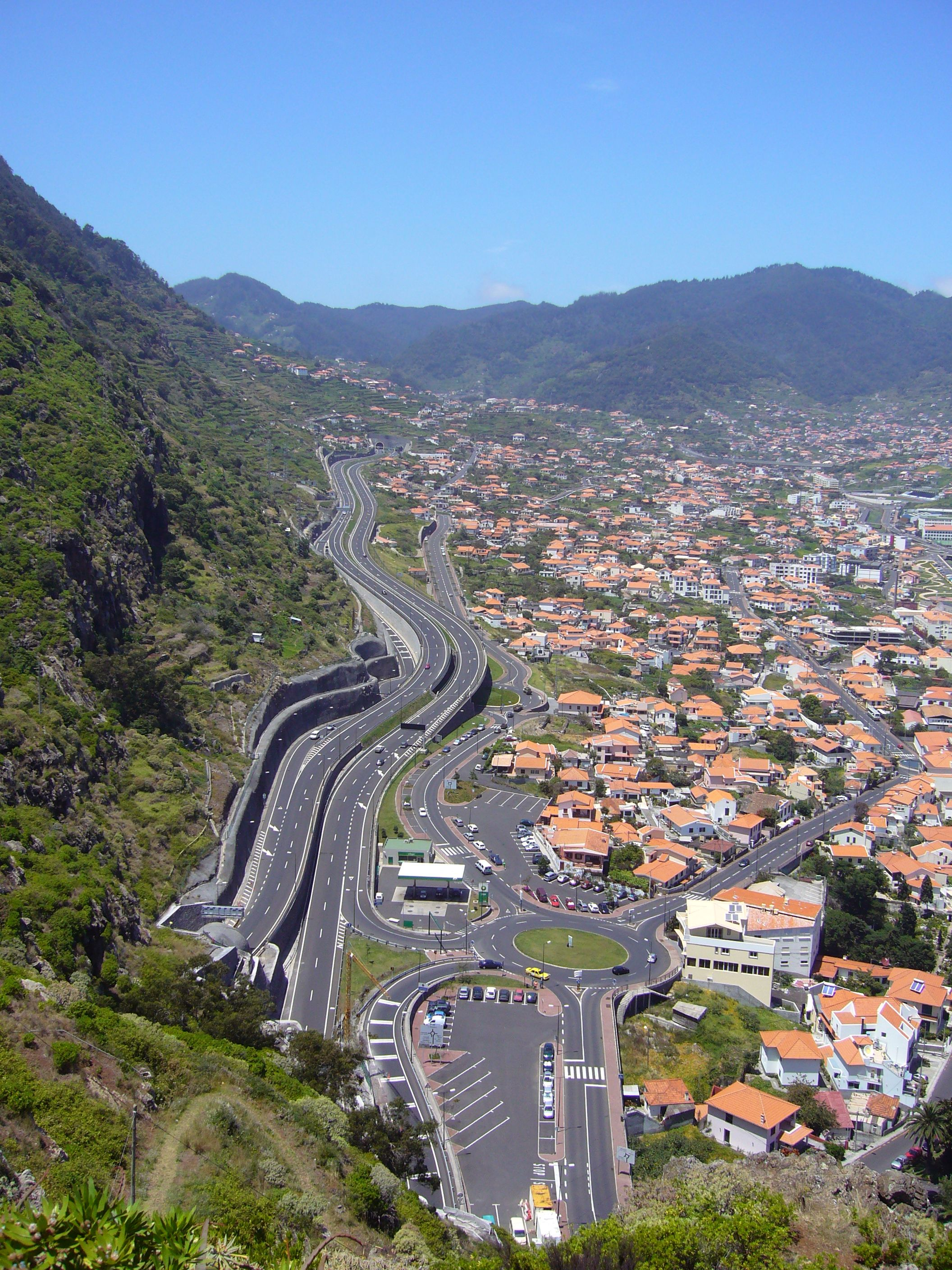 Highway through Machico-Madeira